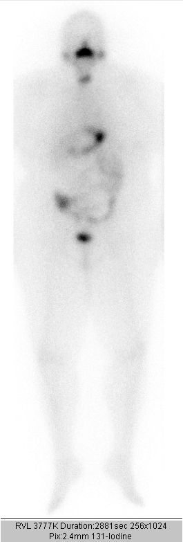 Whole-body-scan after 3rd therapy of thyroid cancer with 3.7 GBq Iodine-131.